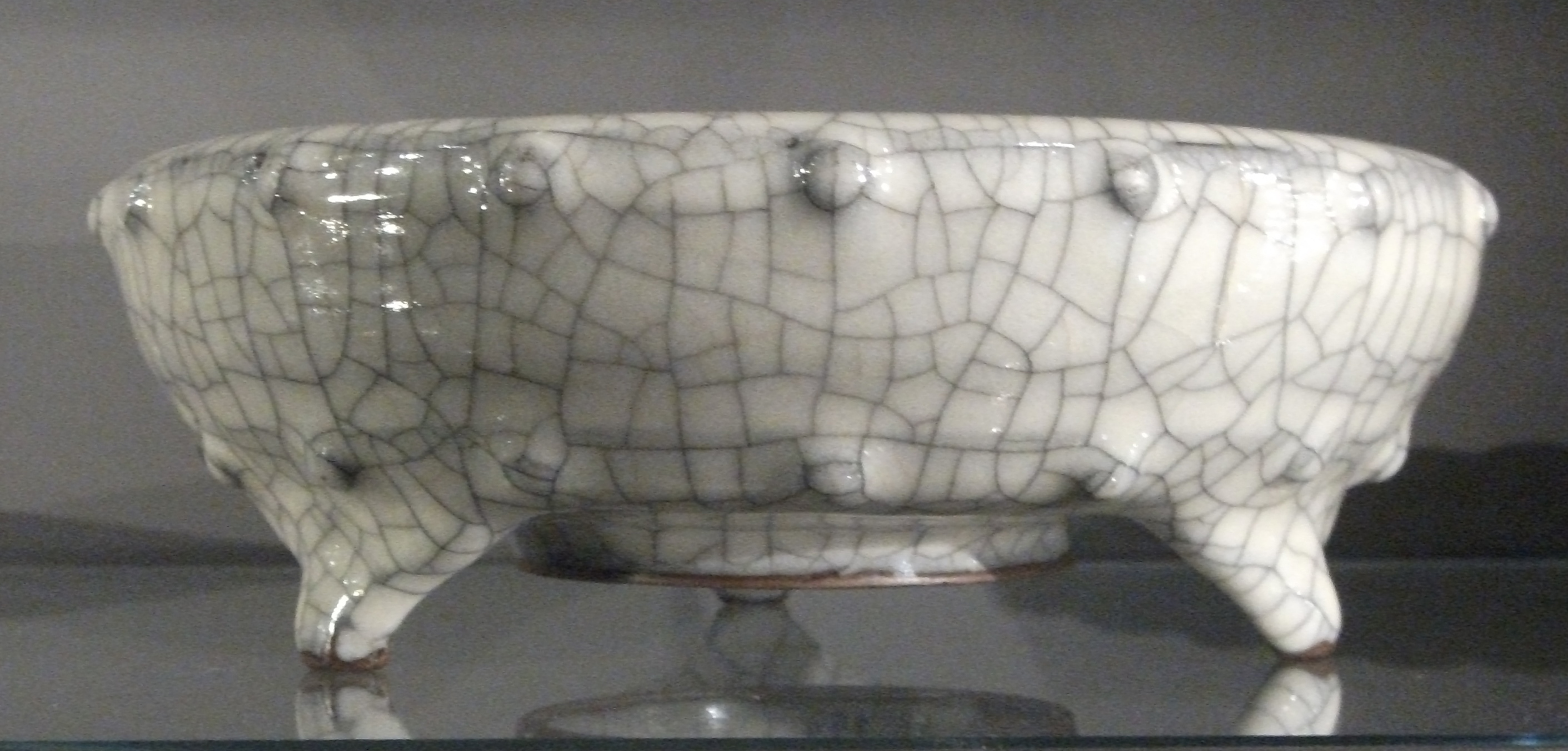 Percival David Collection, British Museum, Room 95